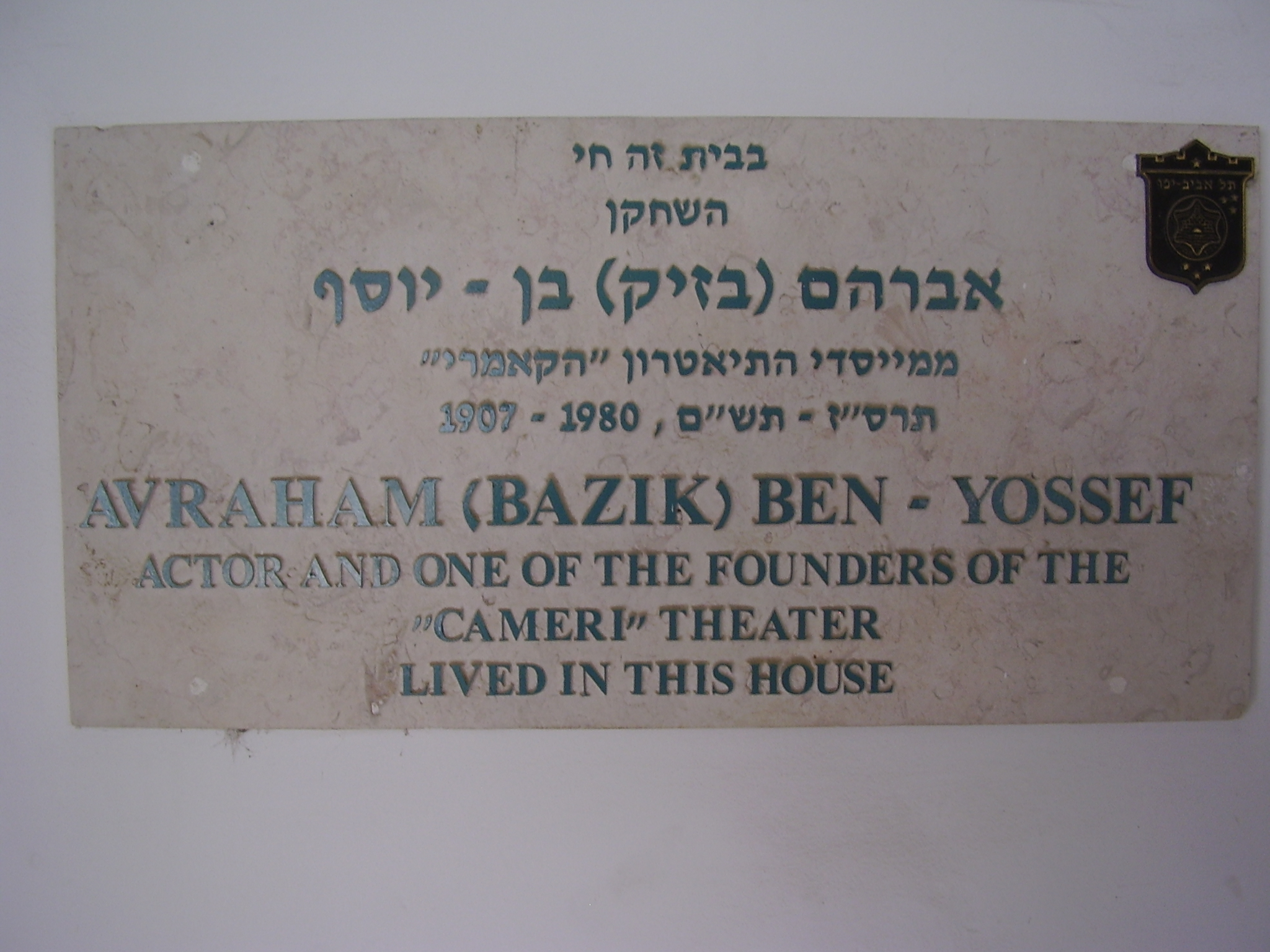 memorial plaque on the actor avrahav ben-yossef house in tel aviv לוחית זיכרון על ביתו של השחקן אברהם בן יוסף ברח' שינקין 65 בתל אביב